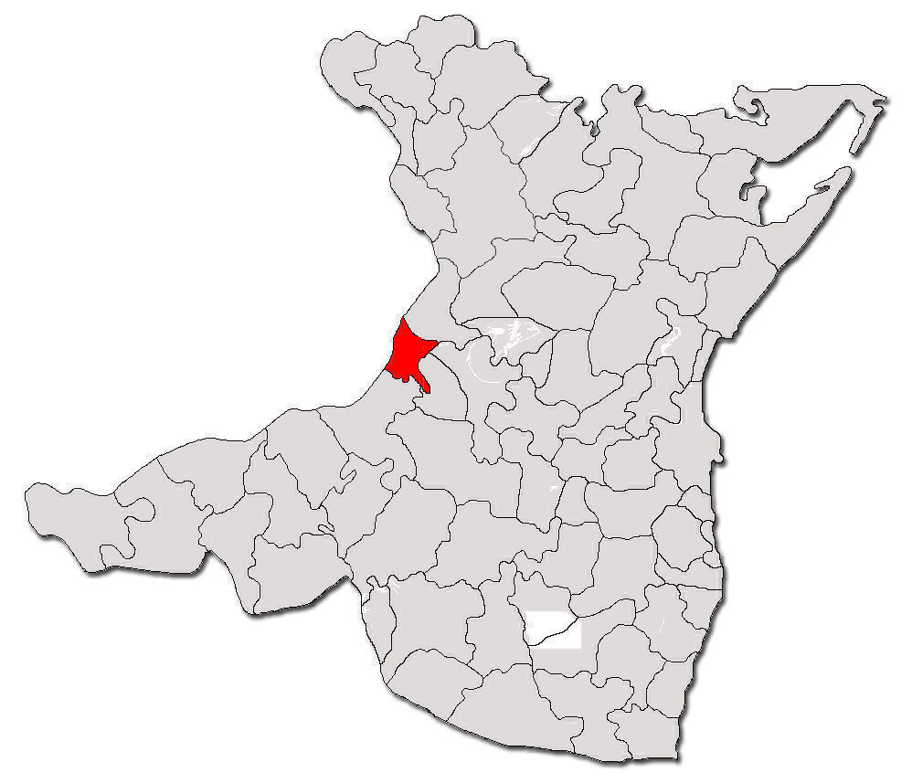 Contour map of Cernavoda